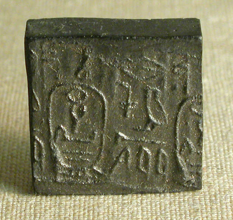 Cylinder Seal with Sekhemre-khutawi (Sebekhotep I)